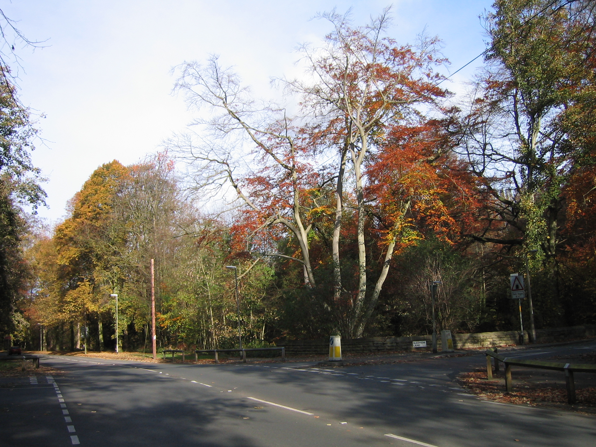 Gledhow Valley Road, junction with Gledhow Lane, Leeds, looking North